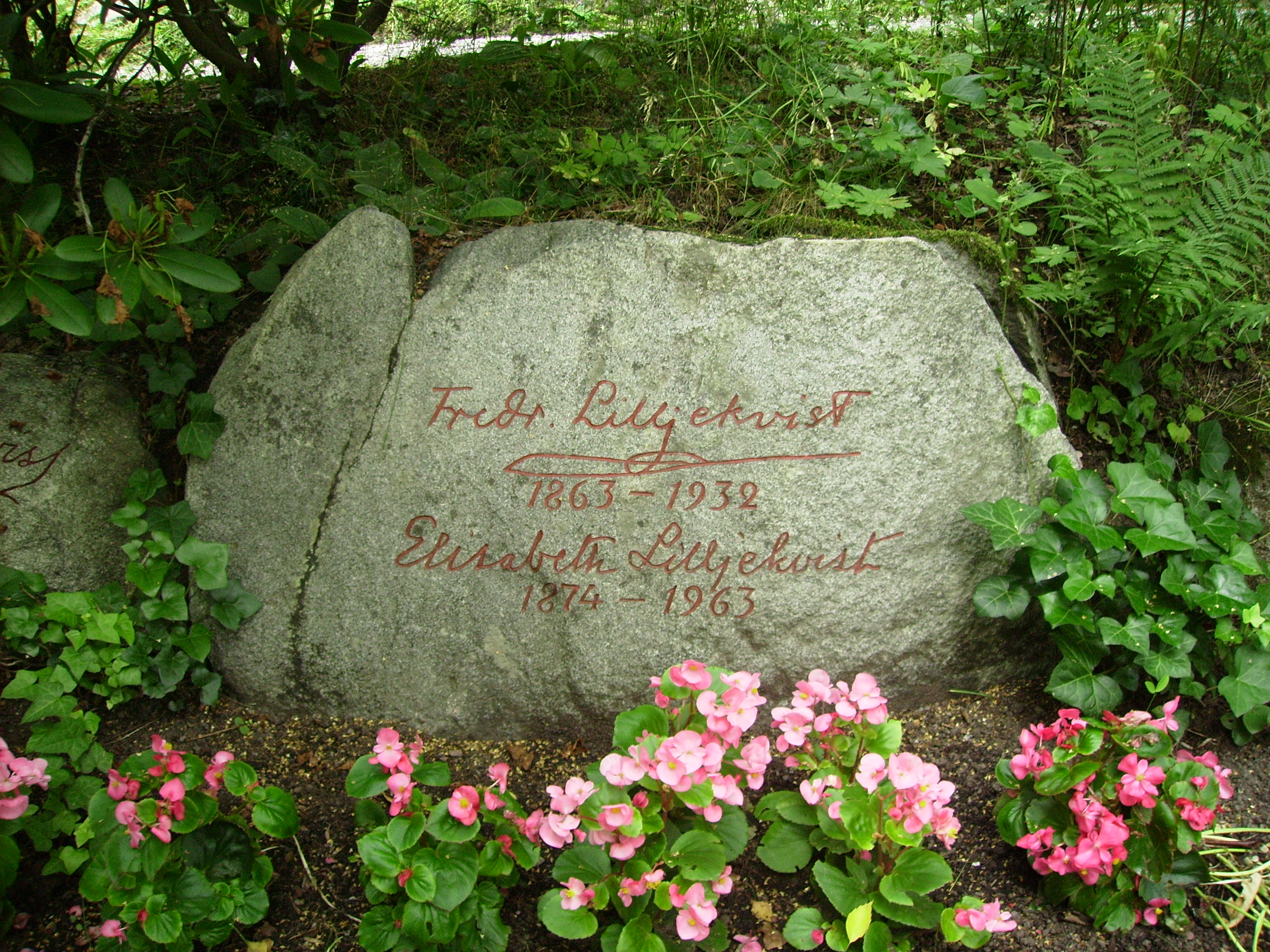 Picture of Fredrik Lilljekvist's grave at Djursholms burial ground